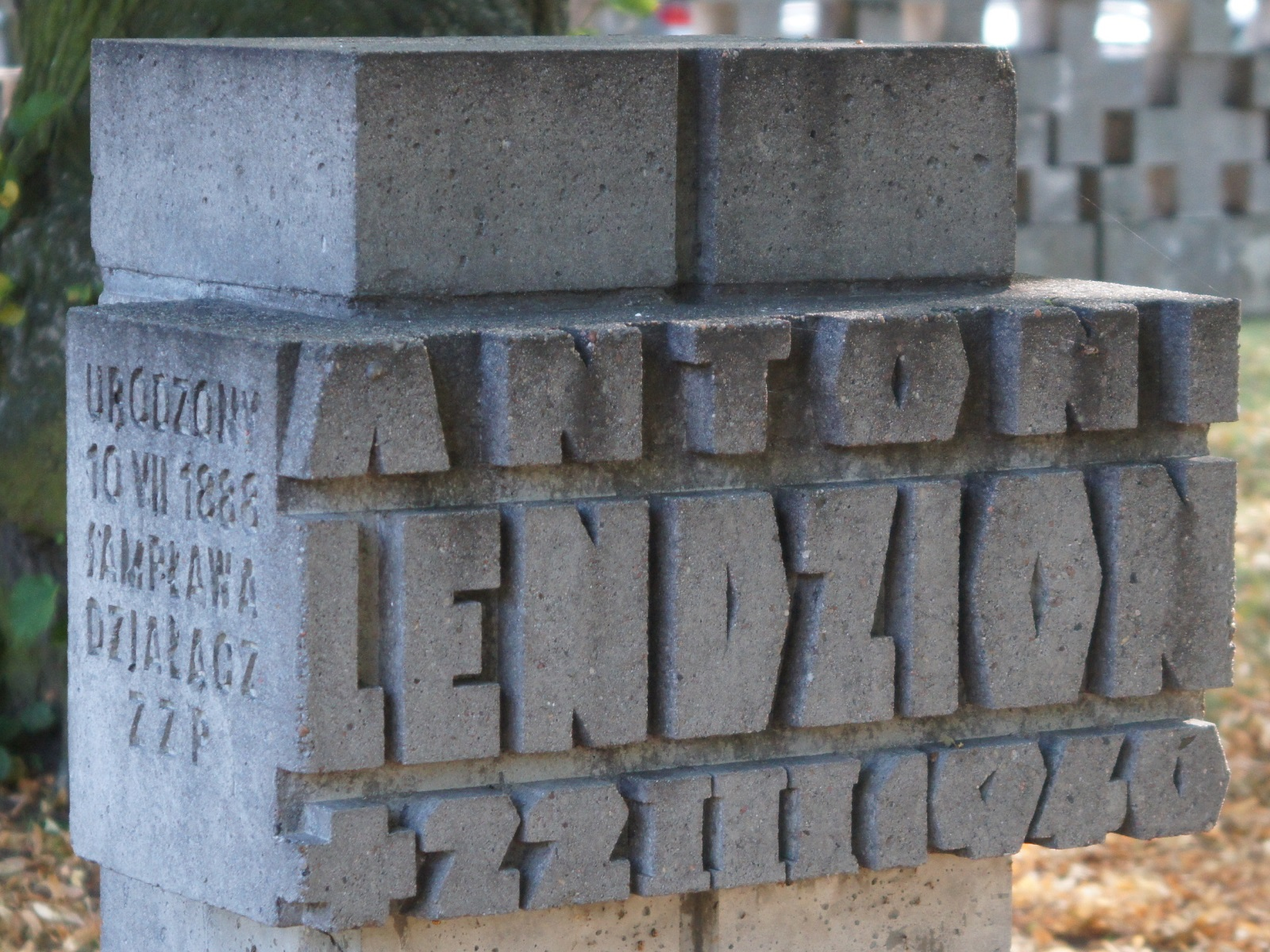 Antoni Lendzion - Zaspa Cemetery in Gdańsk